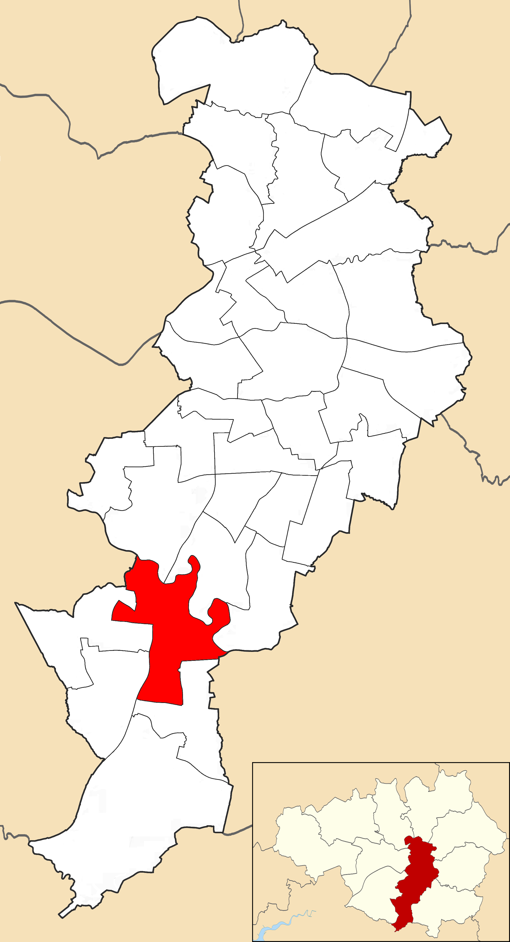 Map showing location of Northenden ward within Manchester City Council.